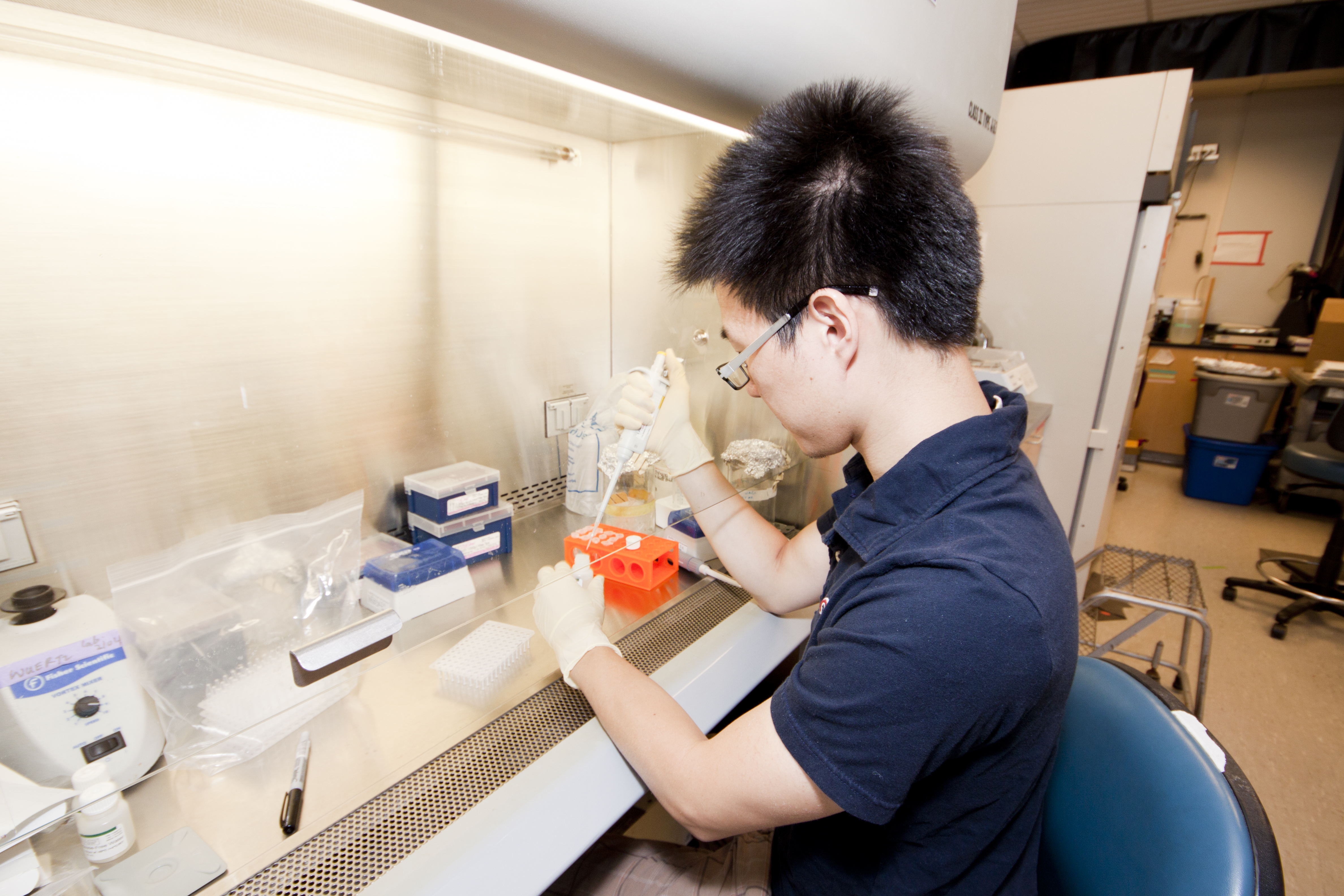 A scientist dilutes and transfers samples to a qPCR plate Info: Photo Credit: Kevin Tong